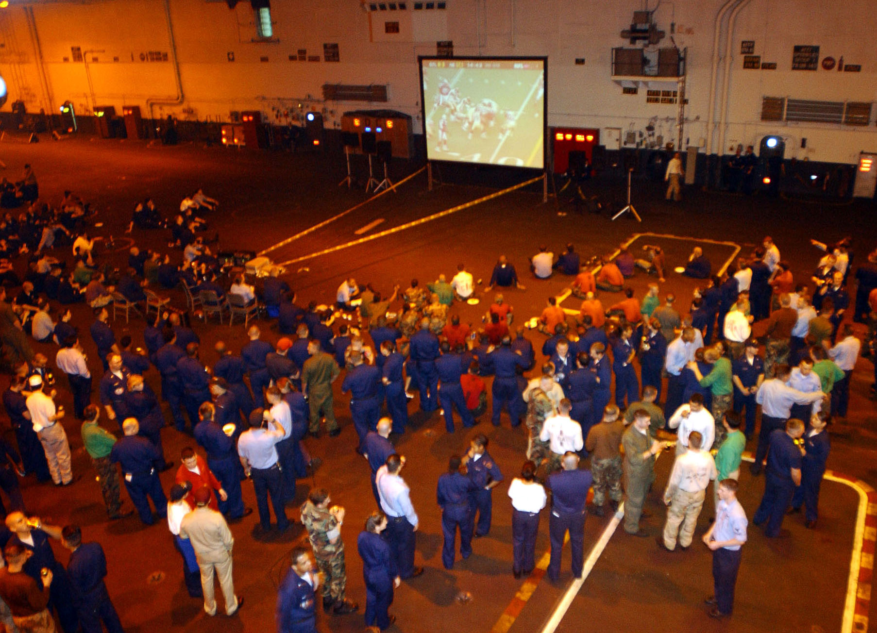 020204-N-6442M-022 At sea aboard USS John C. Stennis (CVN 74) Feb. 4, 2002 -- U.S. Navy Sailors and Marines enjoy a live broadcast of the National Football League (NFL) Super Bowl XXXVI in one of two hangar bays aboard the nuclear powered aircraft carrier. John C. Stennis and her embarked Carrier Air Wing Nine (CVW-9) are on a scheduled deployment conducting missions in support of Operation Enduring Freedom. U.S. Navy photo by Photographer's Mate 1st Class Craig McClure. (RELEASED)